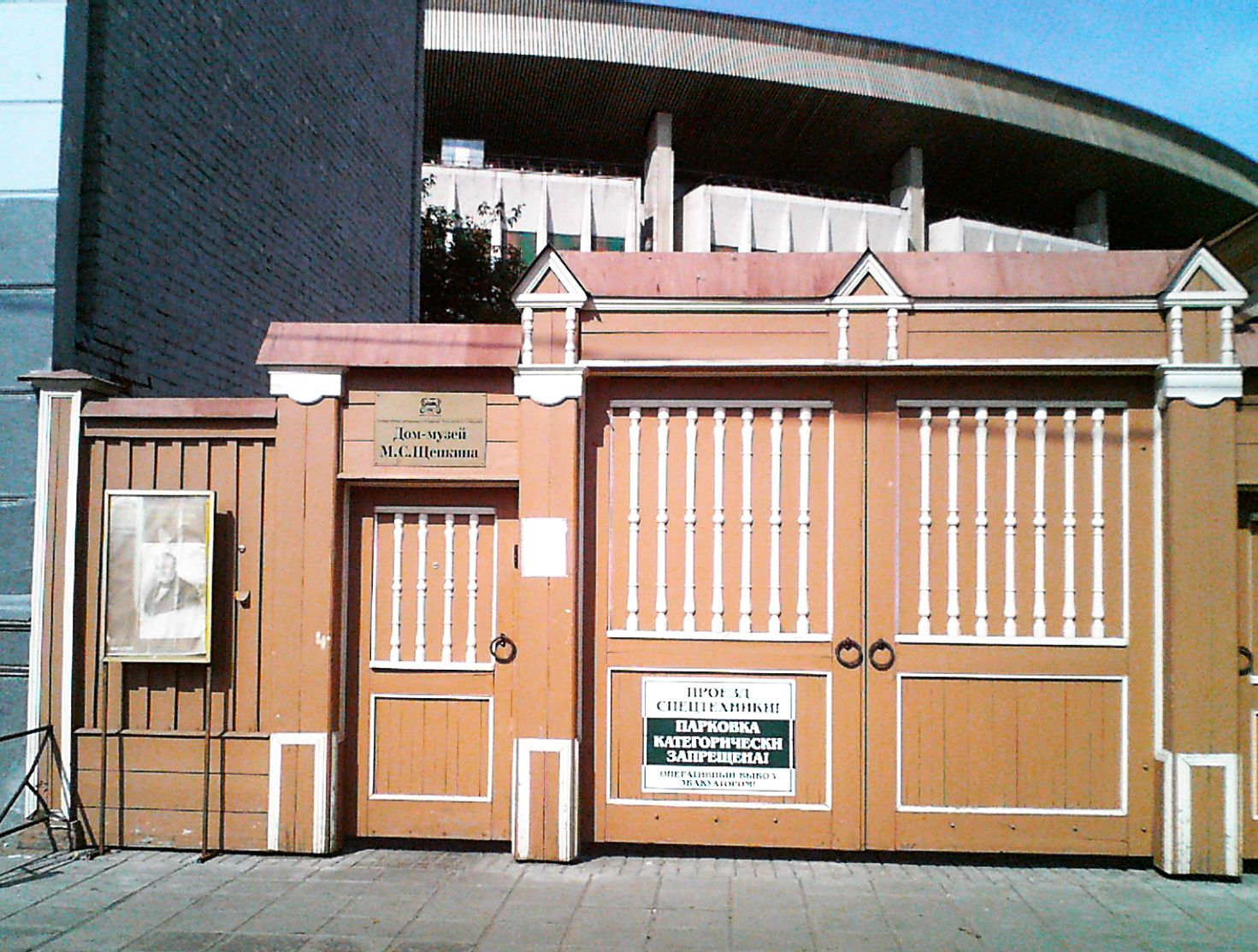 The house in which lived in 1859-1863 a famous Russian actor Mikhail Shchepkin. Moscow, Shchepkina street, 47. Now there is the museum.